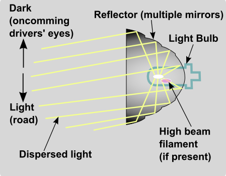 Headlamp schematic, reflector optics